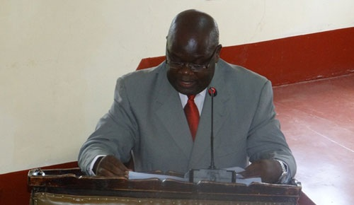 The vetting committee rejected one appointee, her the Majority Leader presents the report